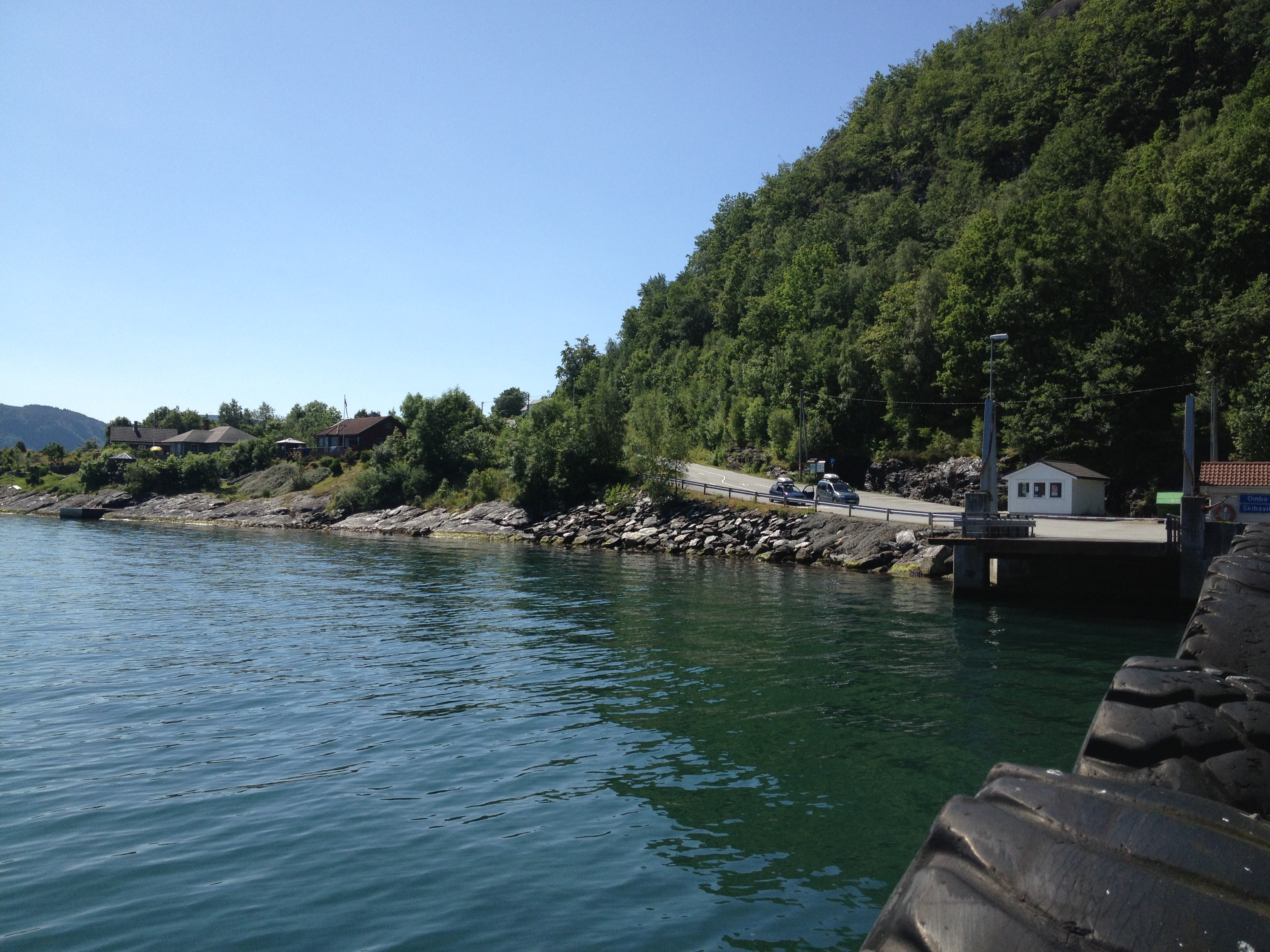 Skipavik fergekai på Ombo i Hjelmeland kommune